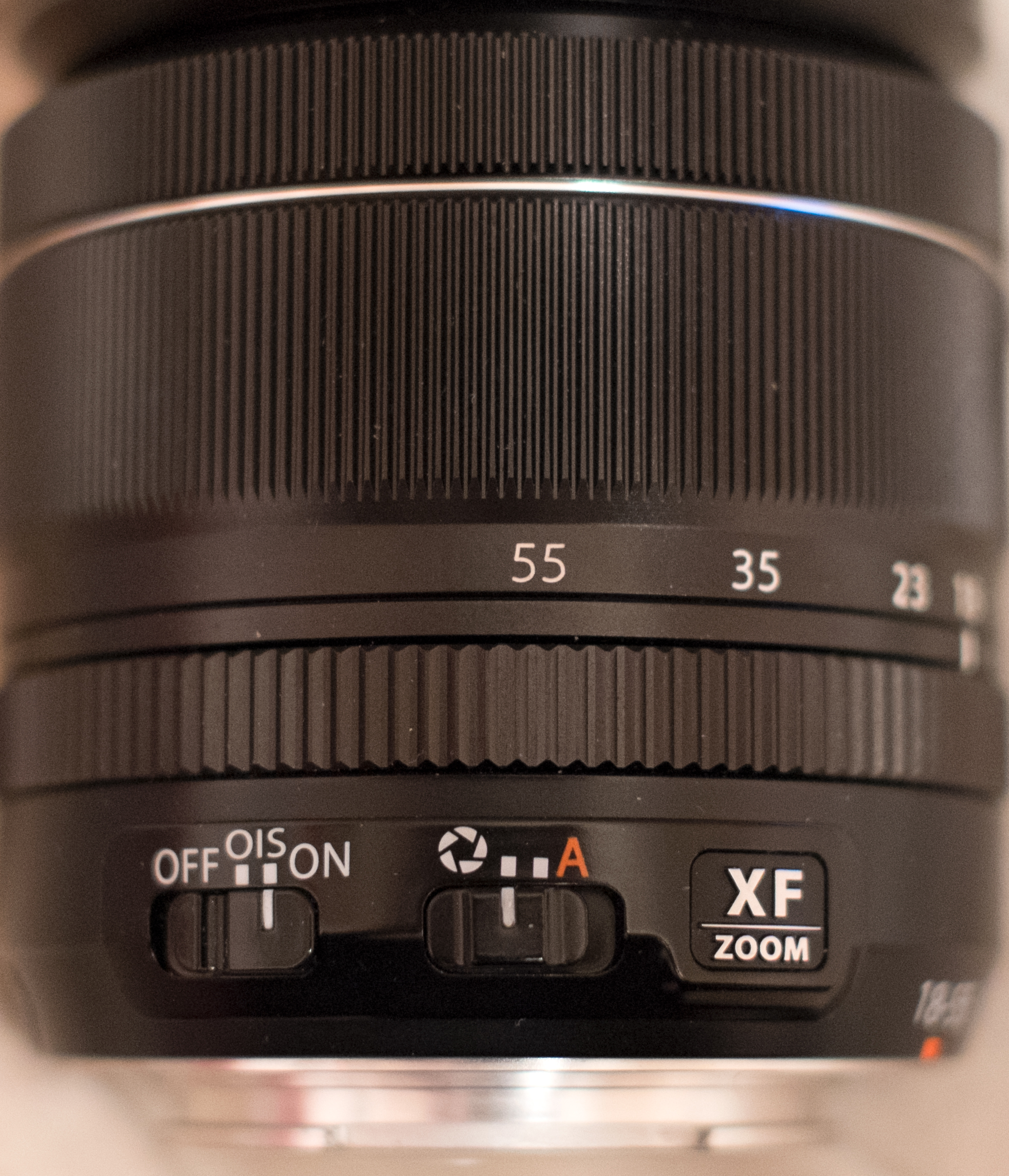 Fujifilm XF 18-55 mm lens controls